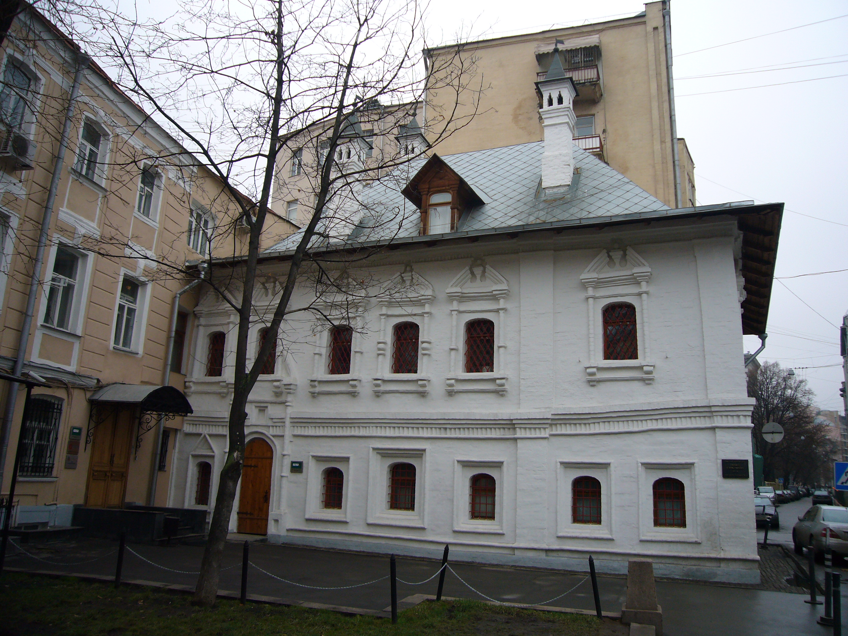 House of G. Araslanov dated 17 century in Bryusov Pereulok, Moscow, Russia